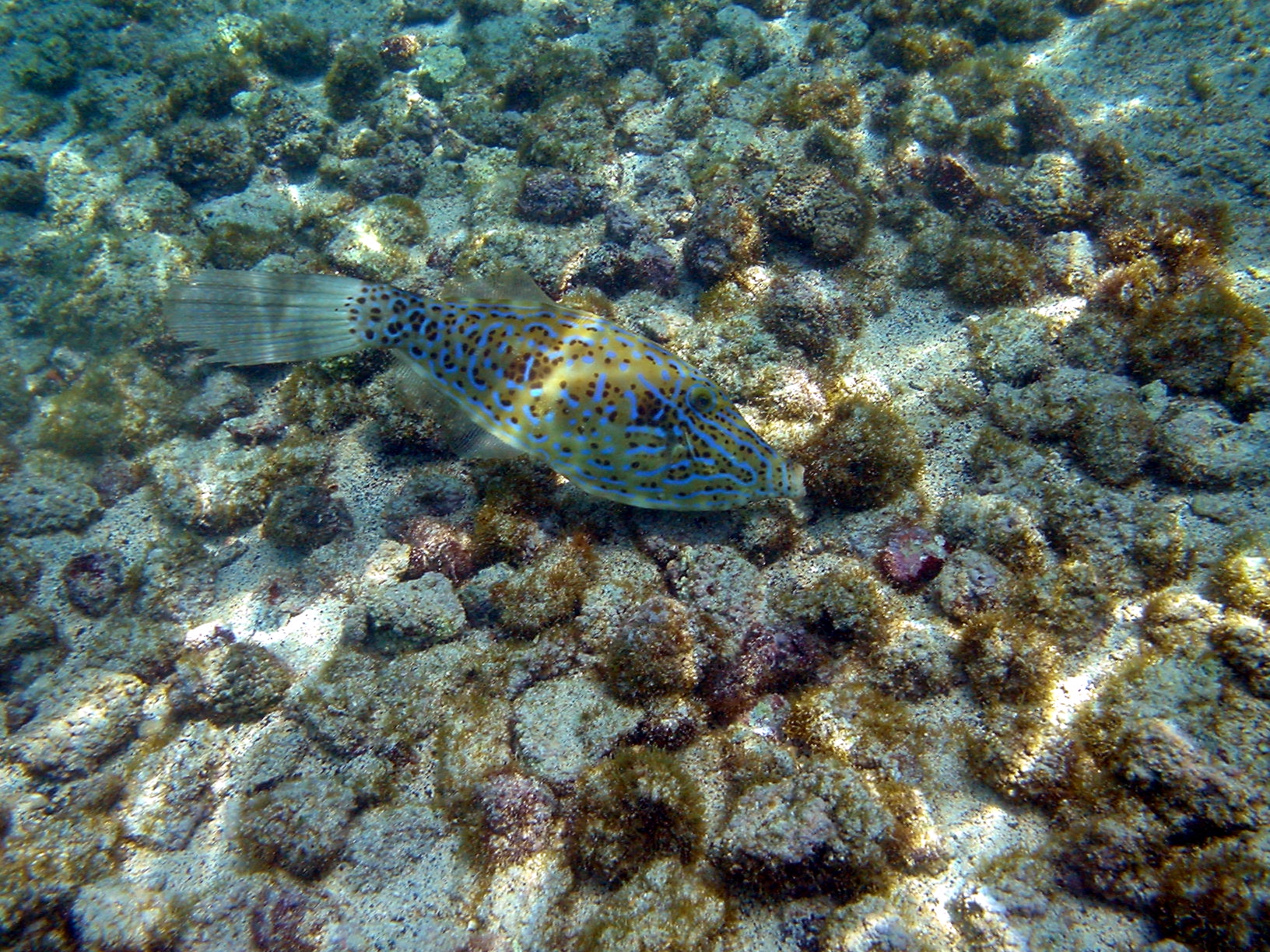 Colorful Scribbled filefish, Aluterus scriptus in Kona, Hawaii